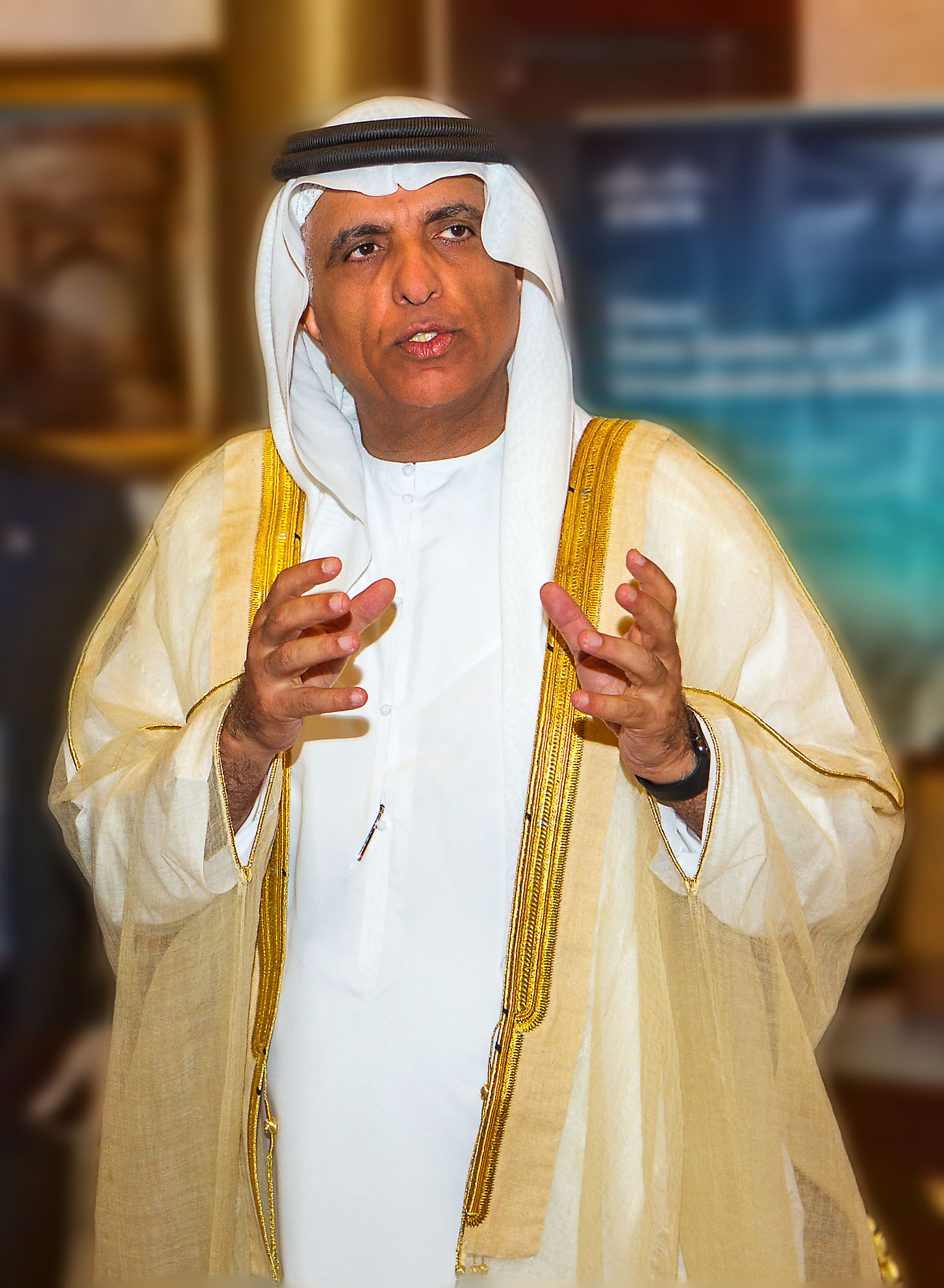 Sheikh Saud in 2010